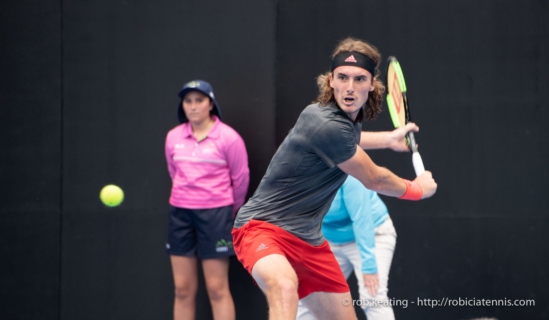 Sydney, Australia - 10 January 2019: Stefanos Tsitsipas during his quarterfinal match at the Sydney International tennis on Ken Rosewall Arena, Sydney Olympic Park. (Photo by Rob Keating/robiciatennis.com)